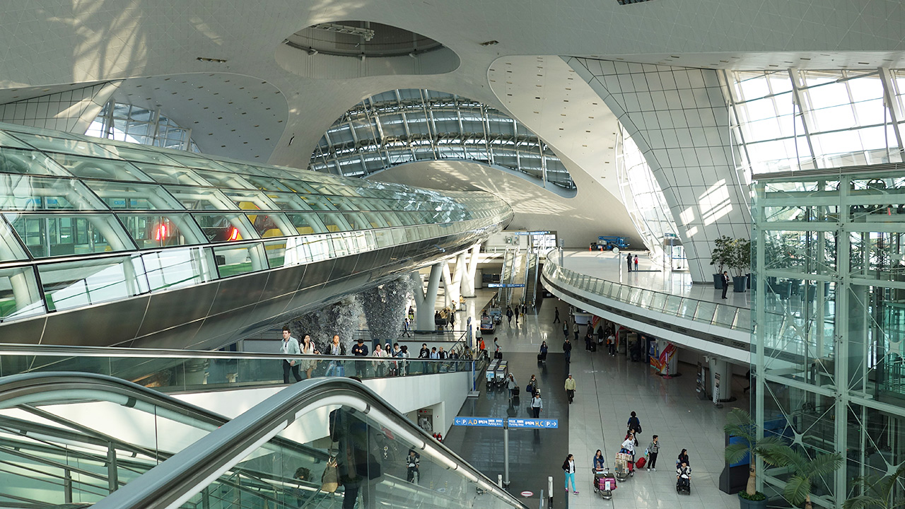 The terminal for KTX and airport trains in Incheon Airport, South Korea